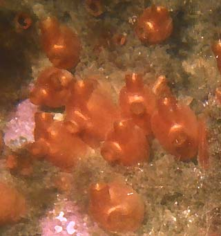 Halocynthia sp., an ascidian. Barents Sea.